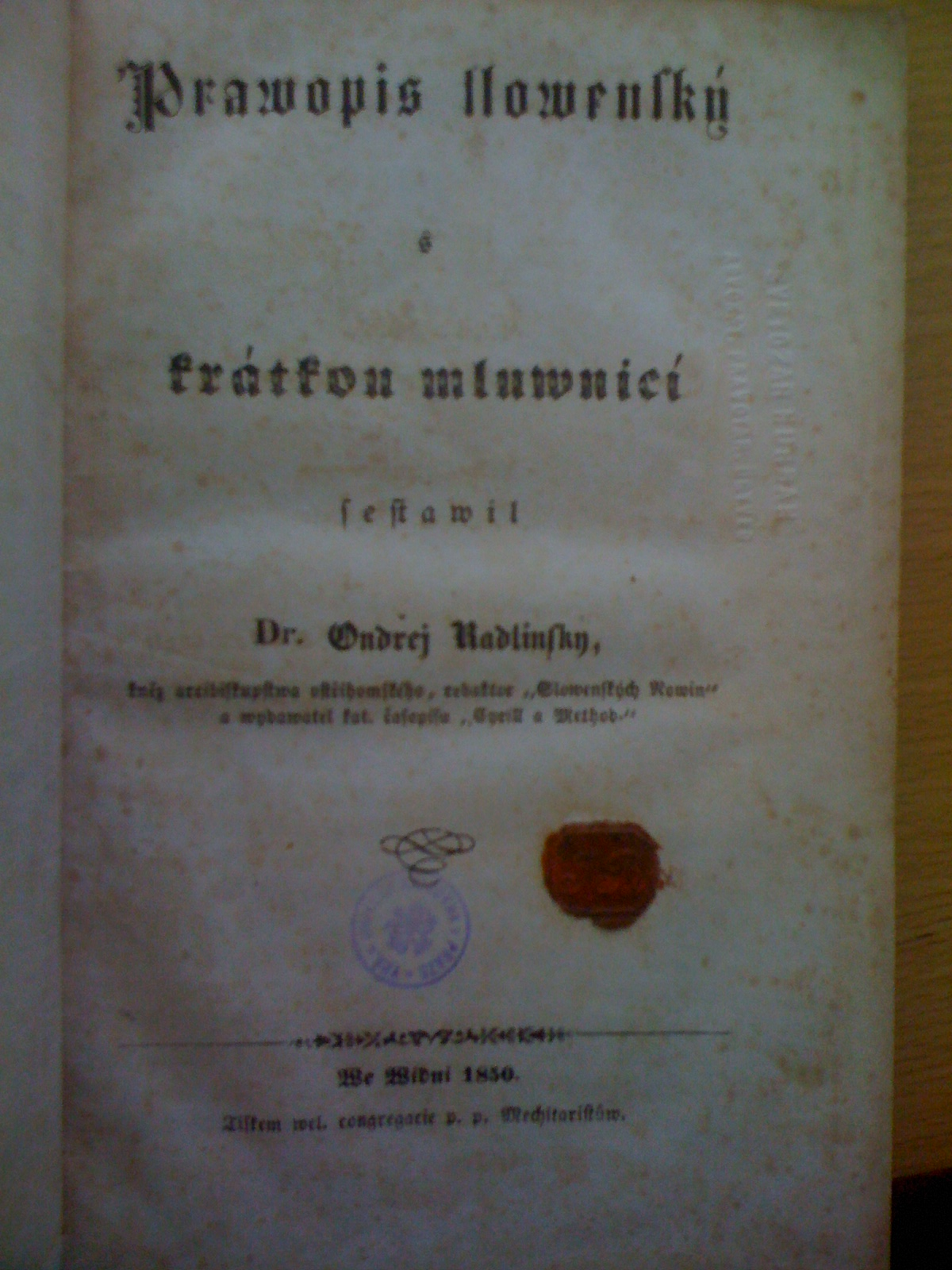 The first page of the book "Slowensky prawopis s kratkou mluwnici" by Andrej Ľudovít Radlinský.